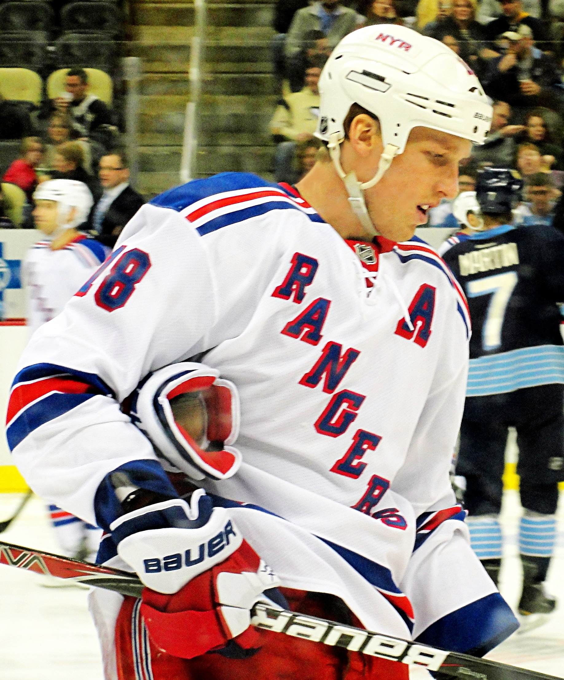 New York Rangers defenseman Marc Staal during a January 6, 2012 game against the Pittsburgh Penguins at Consol Energy Center in Pittsburgh, PA.